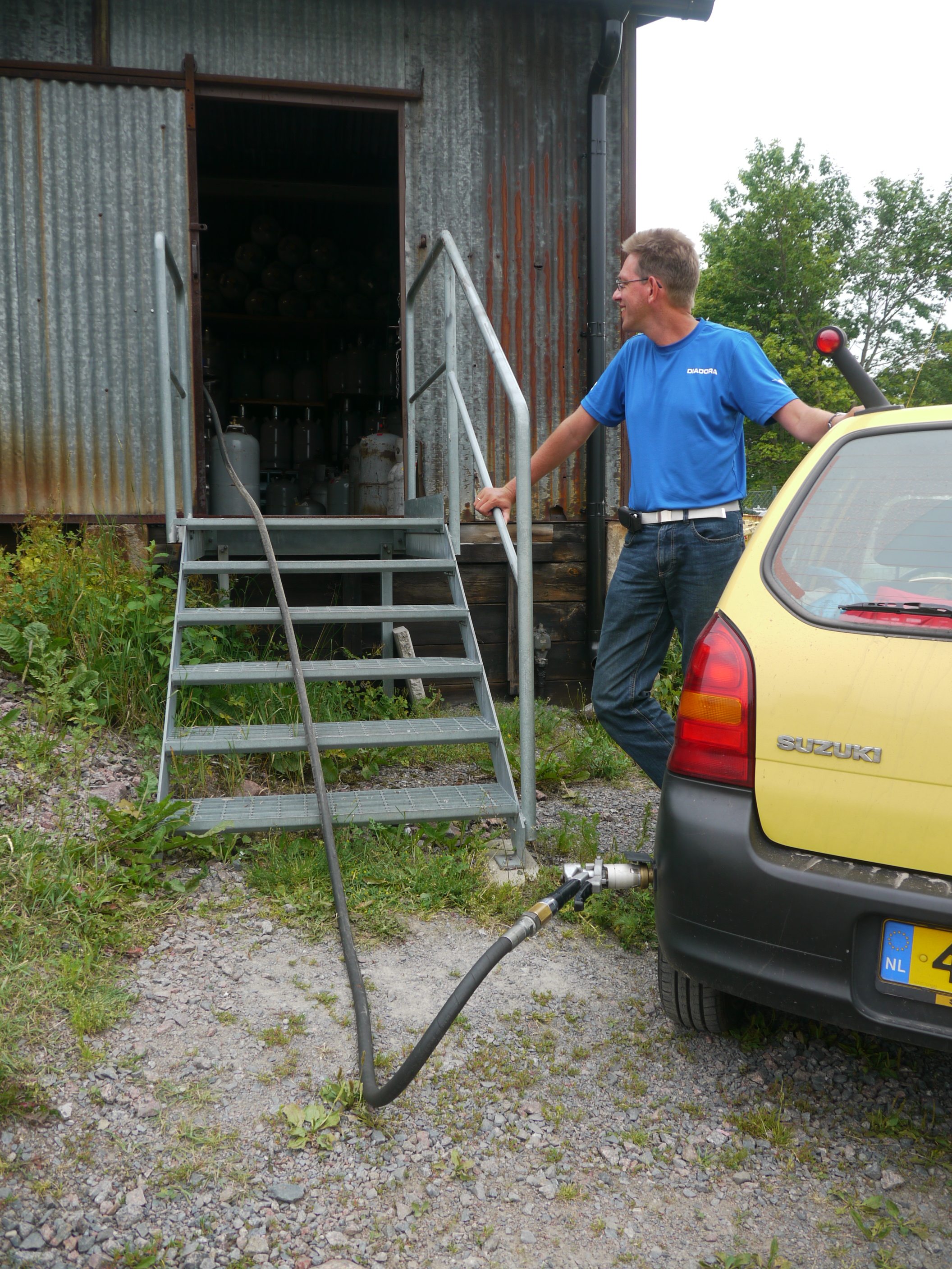 LPG tank station in Linköping, Sweden. Different from many other European countries, LPG is in Sweden rarely available. Not on car gas stations but on industry plants.